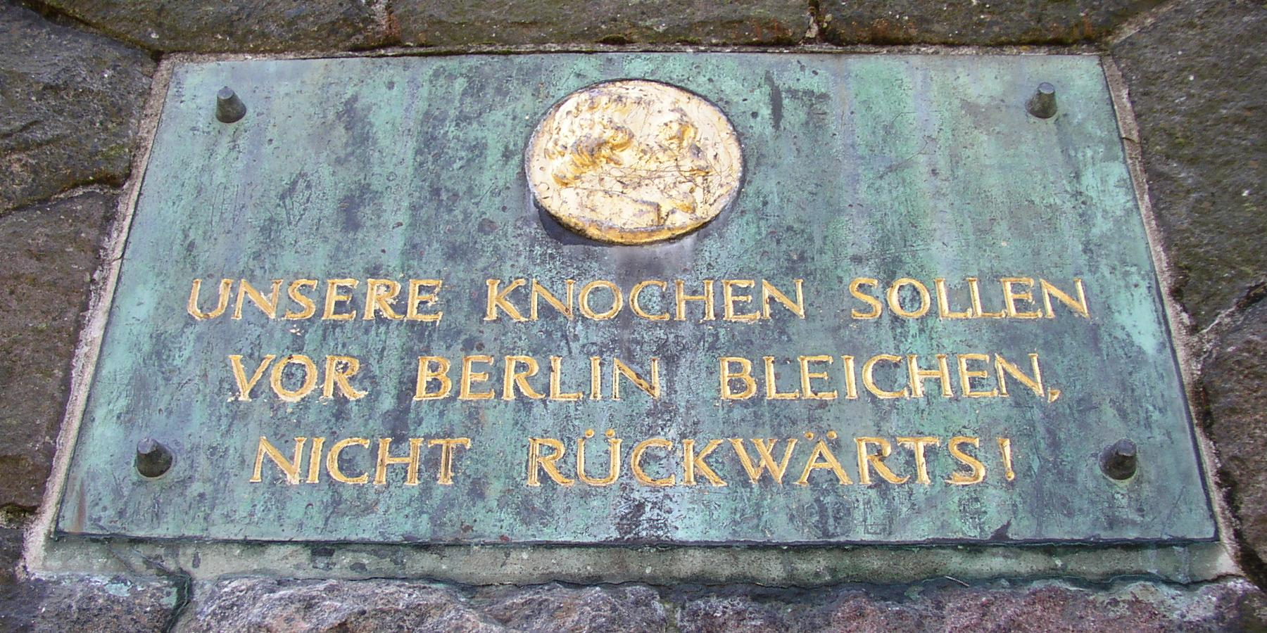 Plaque on the pyramid-shaped memorial of the Battle of Großbeeren in Brandenburg, Germany, with the words of General von Bülow: "Our bones shall bleach in the sun before Berlin -- no retreat!"